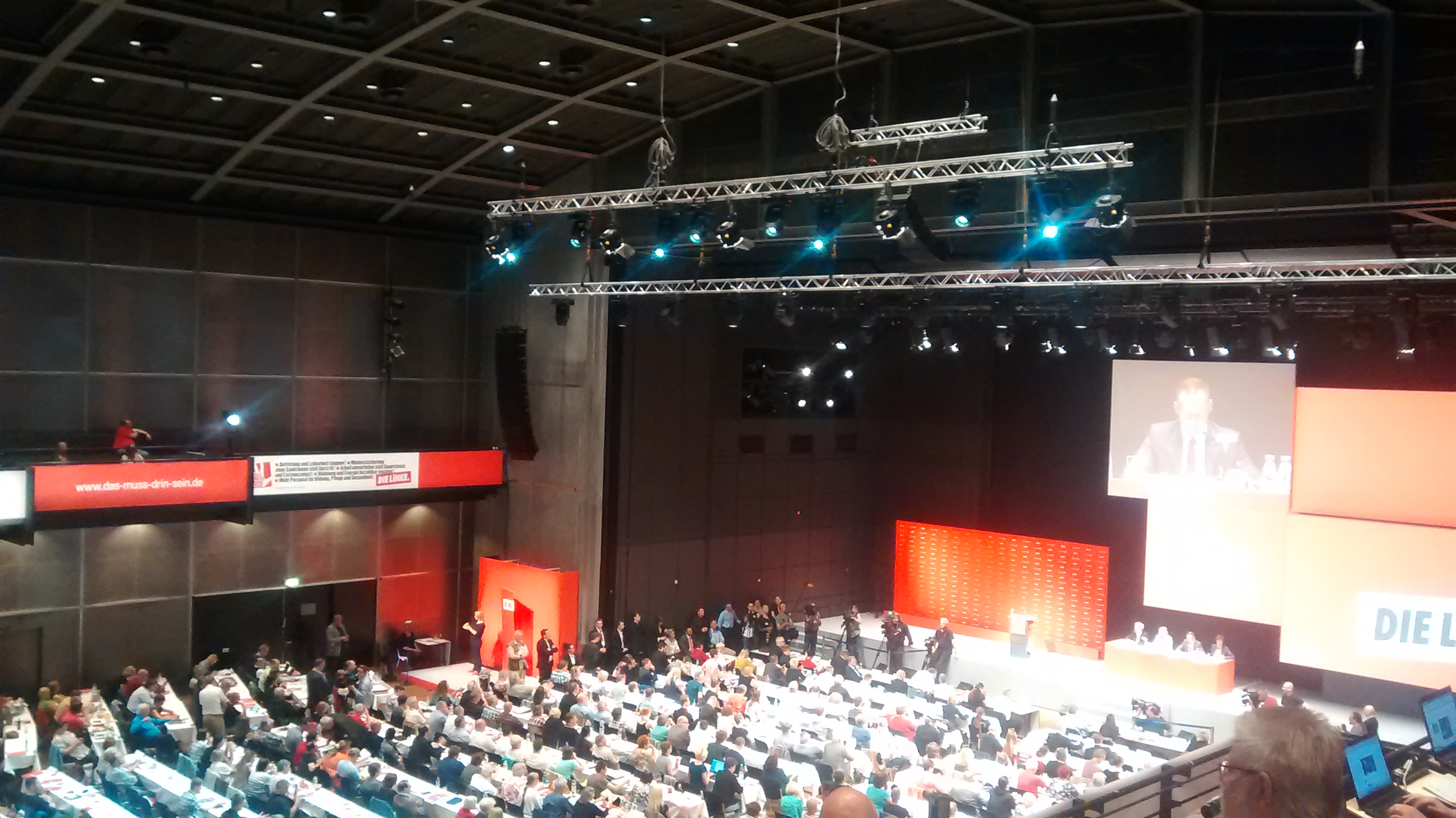 Stadthalle Bielefeld von innen beim Bundesparteitag der Linken 2015